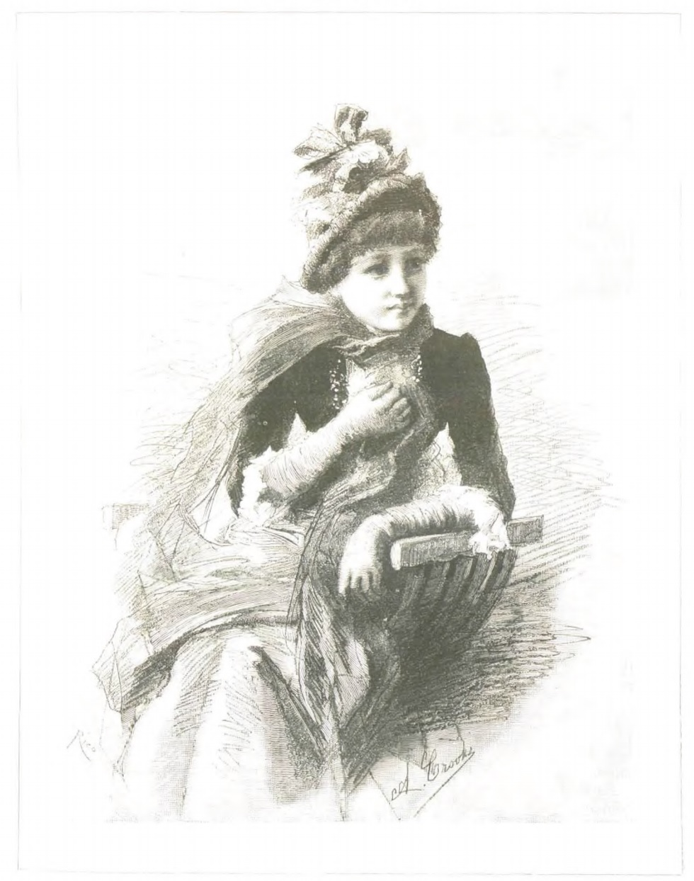 "A study". Original drawing by Miss Adela Crooke, disciple of Don Alfredo Perea